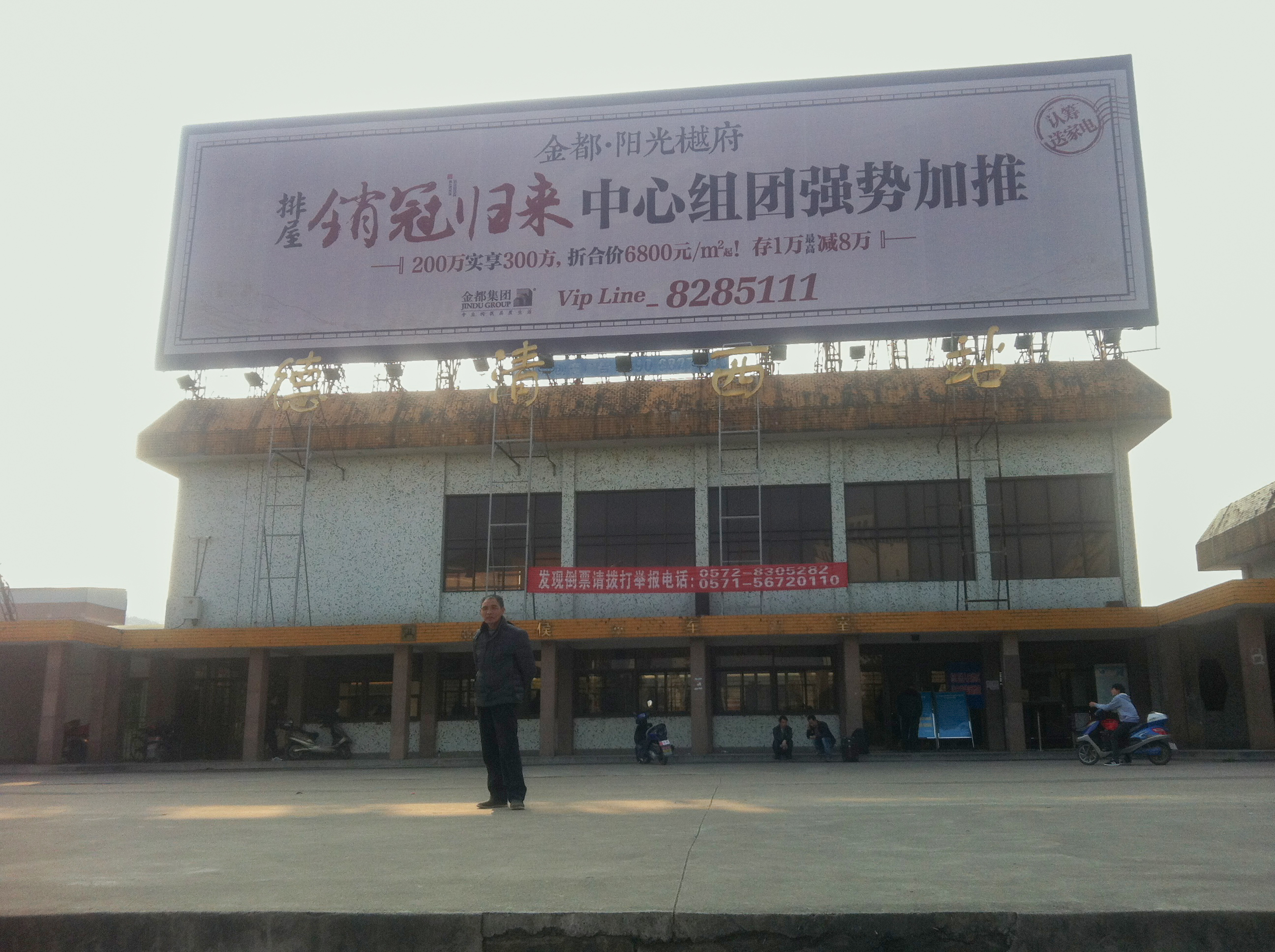 201503 Facade of Deqingxi Railway Station